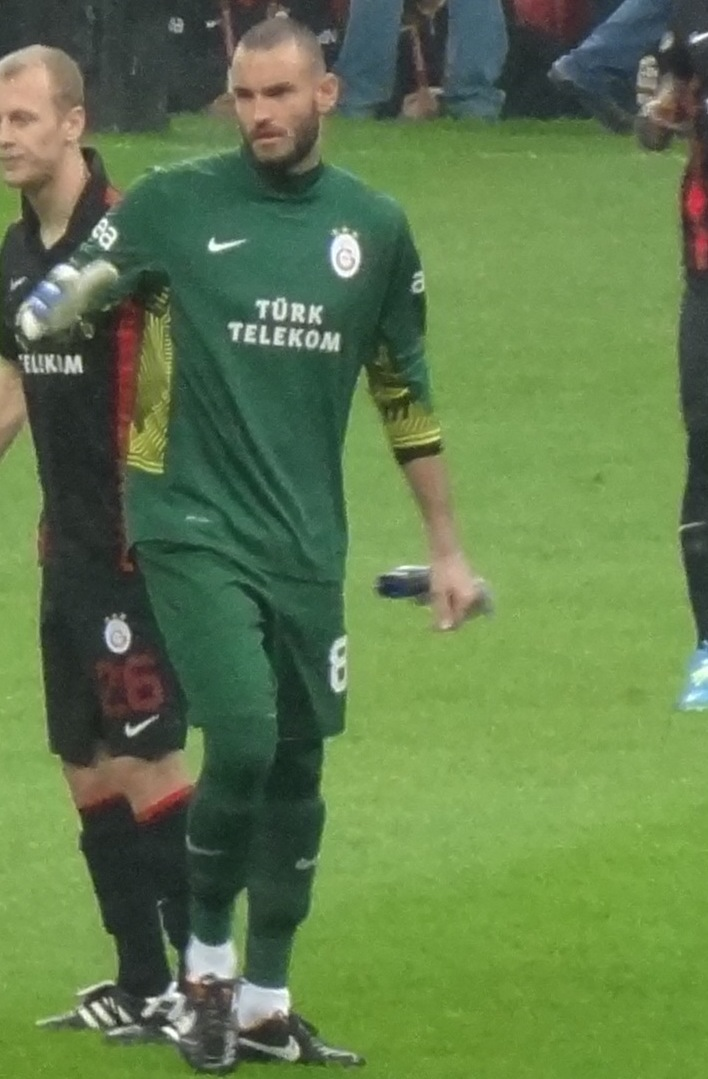 Ufuk playin against Sivas